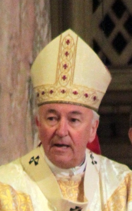 Archbishop Nichols makes some closing remarks after the mass of ordination of three new priests